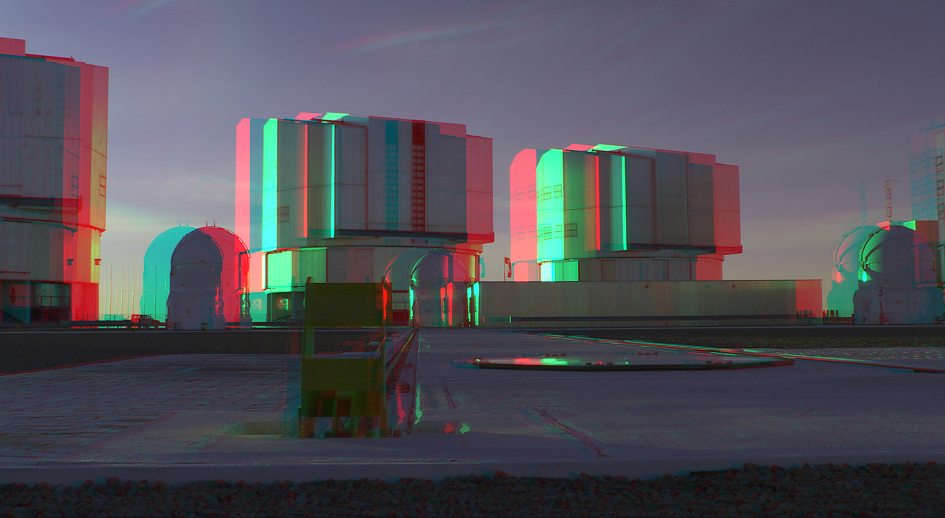 A 3D image of the giant domes of the VLT opening as the sun sets. Requires red-cyan glasses to view properly.